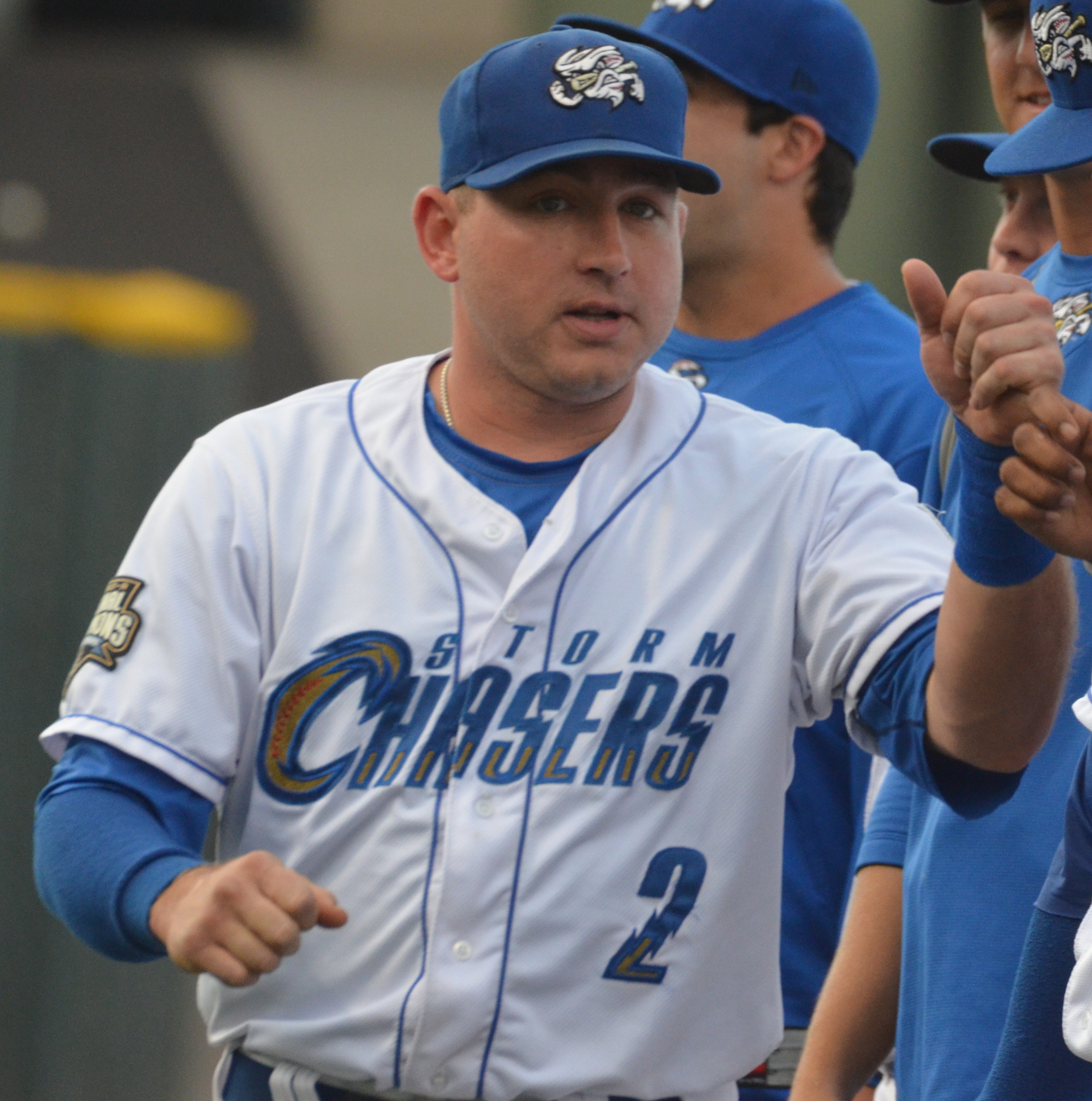 Brian Bocock of the Omaha Storm Chasers with teammates during player introductions before a game on September 3, 2014 at Werner Park in Omaha.